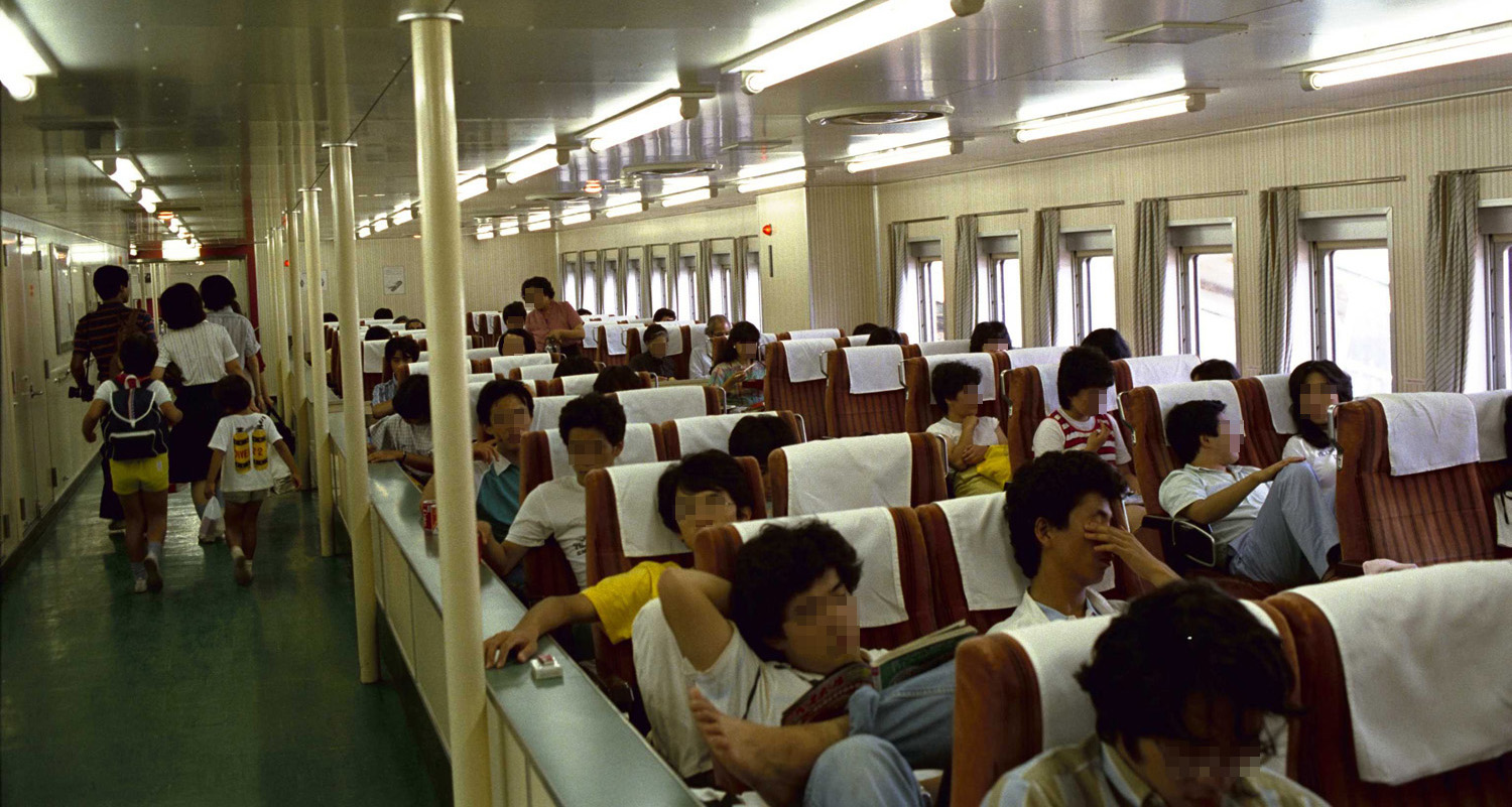 MS HIYAMA MARU2 Port side Ordinary seats cabin. Left side wall is Engine muffler casing.